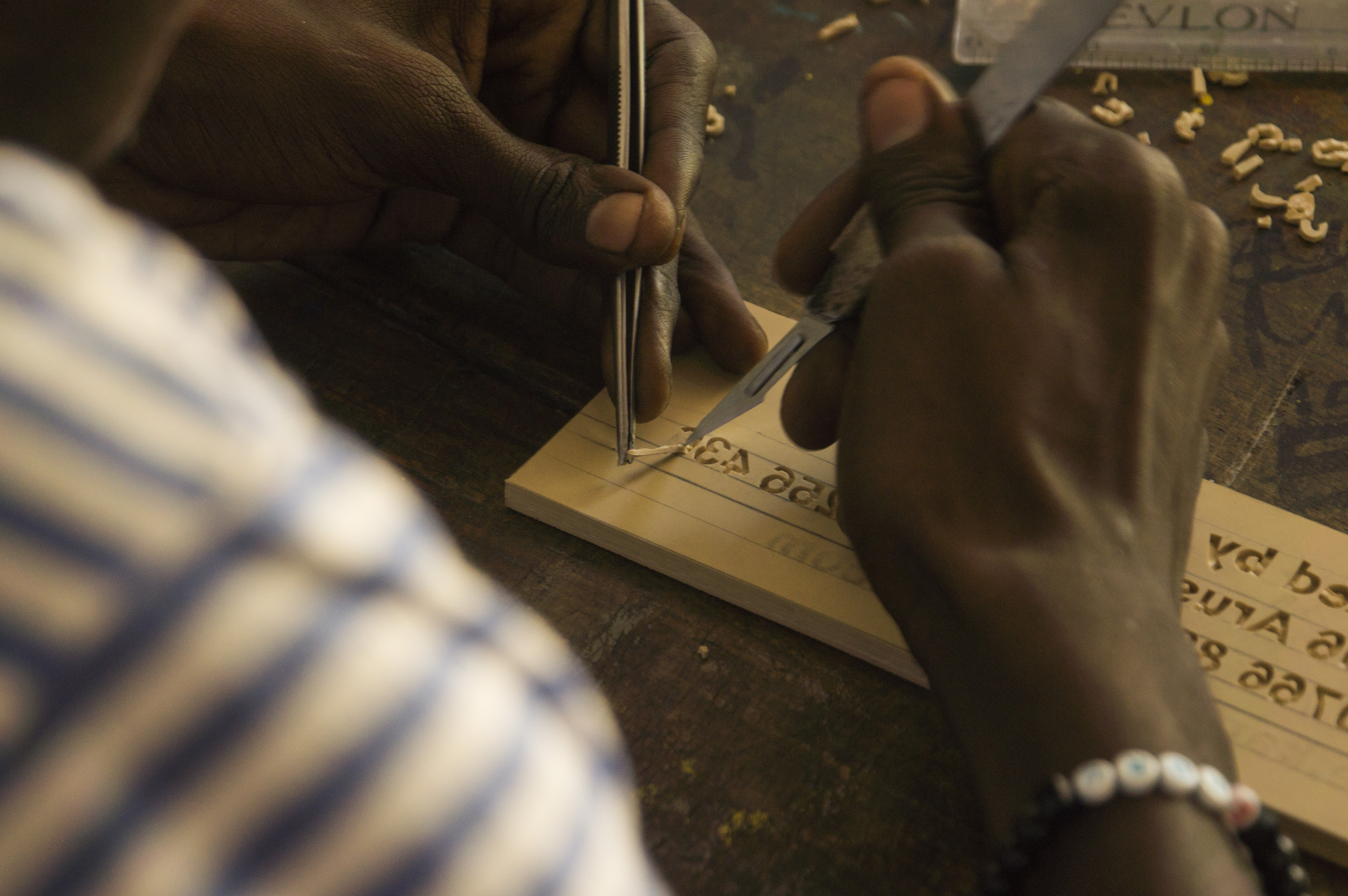 mikono kazini is a swahili word for hands at work,in this picture a man's hands are seen carving a rubber to form words and numbers This is an image of "African people at work" from Tanzania